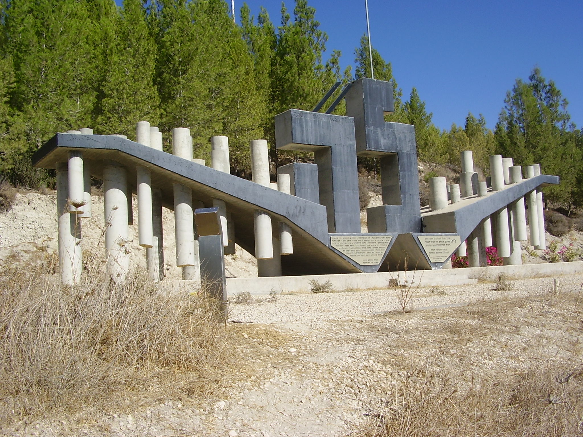 the convoy of 35 memorial near kibbutz netiv halamed-hey.